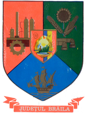 Communist coat of arms of Brăila County, Socialist Republic of Romania.